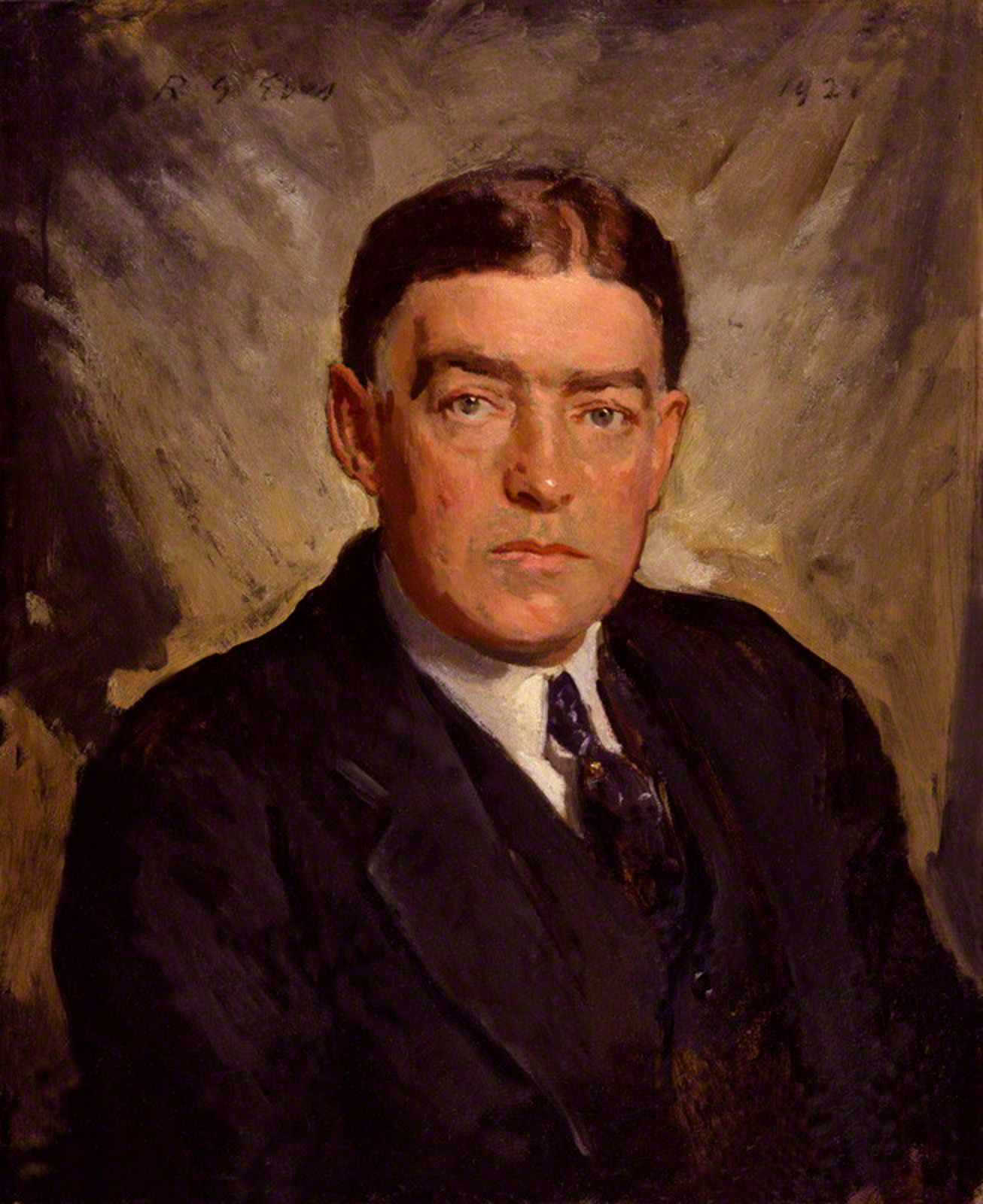 A portrait of Sir Ernest Henry Shackleton, CVO, OBE FRGS (15 February 1874 – 5 January 1922), an Irish polar explorer who led three British expeditions to Antarctica, and was one of the principal figures of the period known as the Heroic Age of Antarctic Exploration.